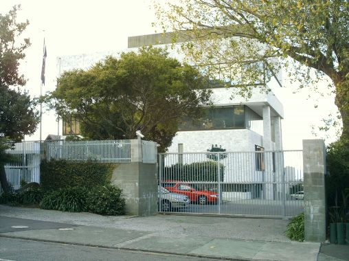 Photo of the Australian diplomatic mission in Wellington, New Zealand